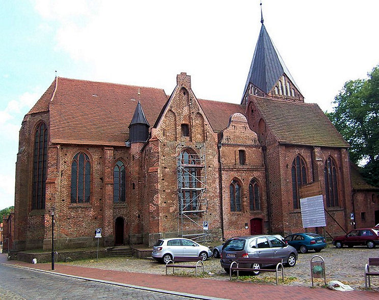 Church in Gadebusch, Germany